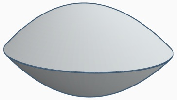 A lentoid. Made in Tinkercad